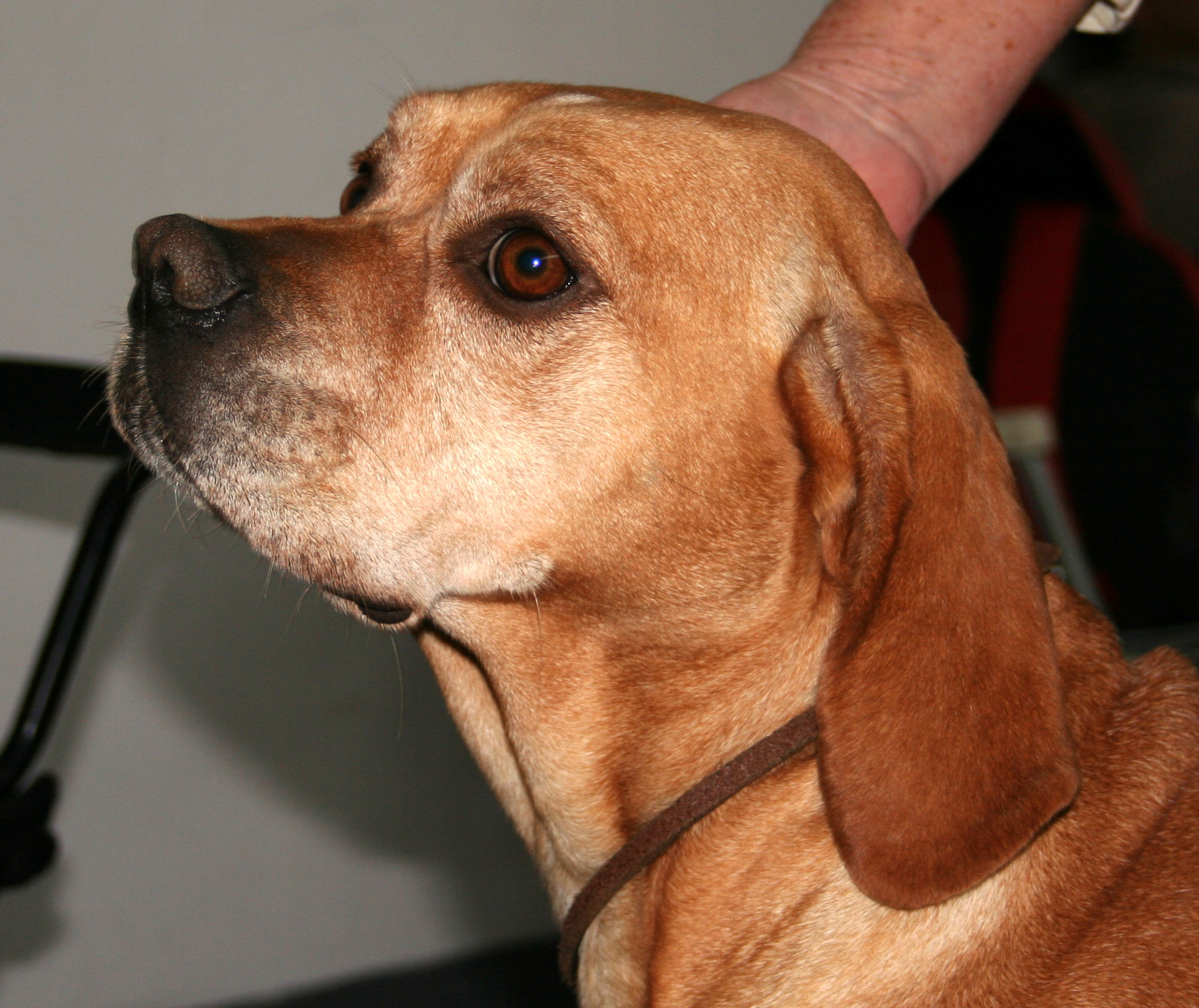 Portuguese Pointer during Dog World Show in Poznań.